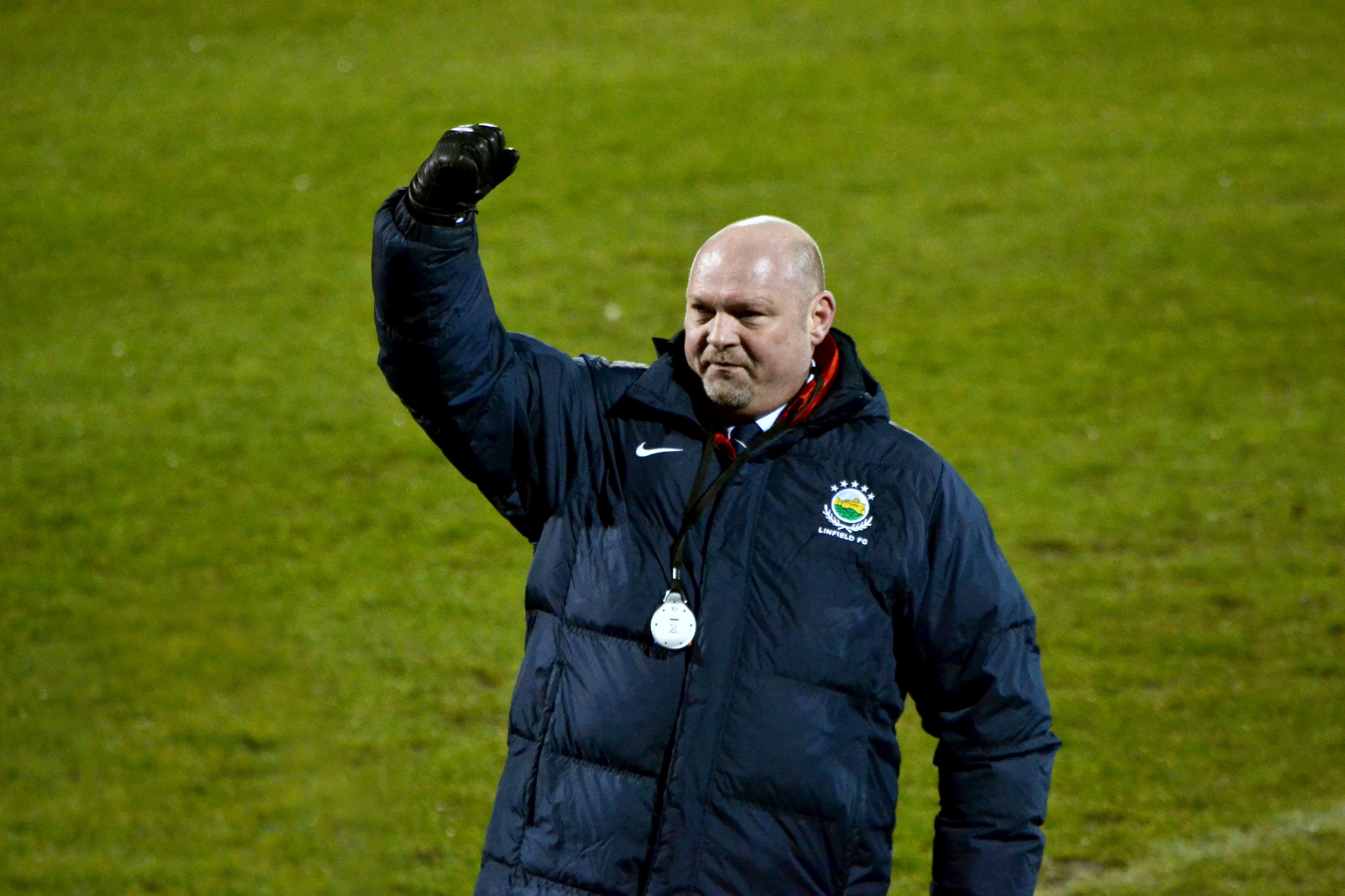 David Jeffrey, manager of Linfield F.C. Pictured in February 2014